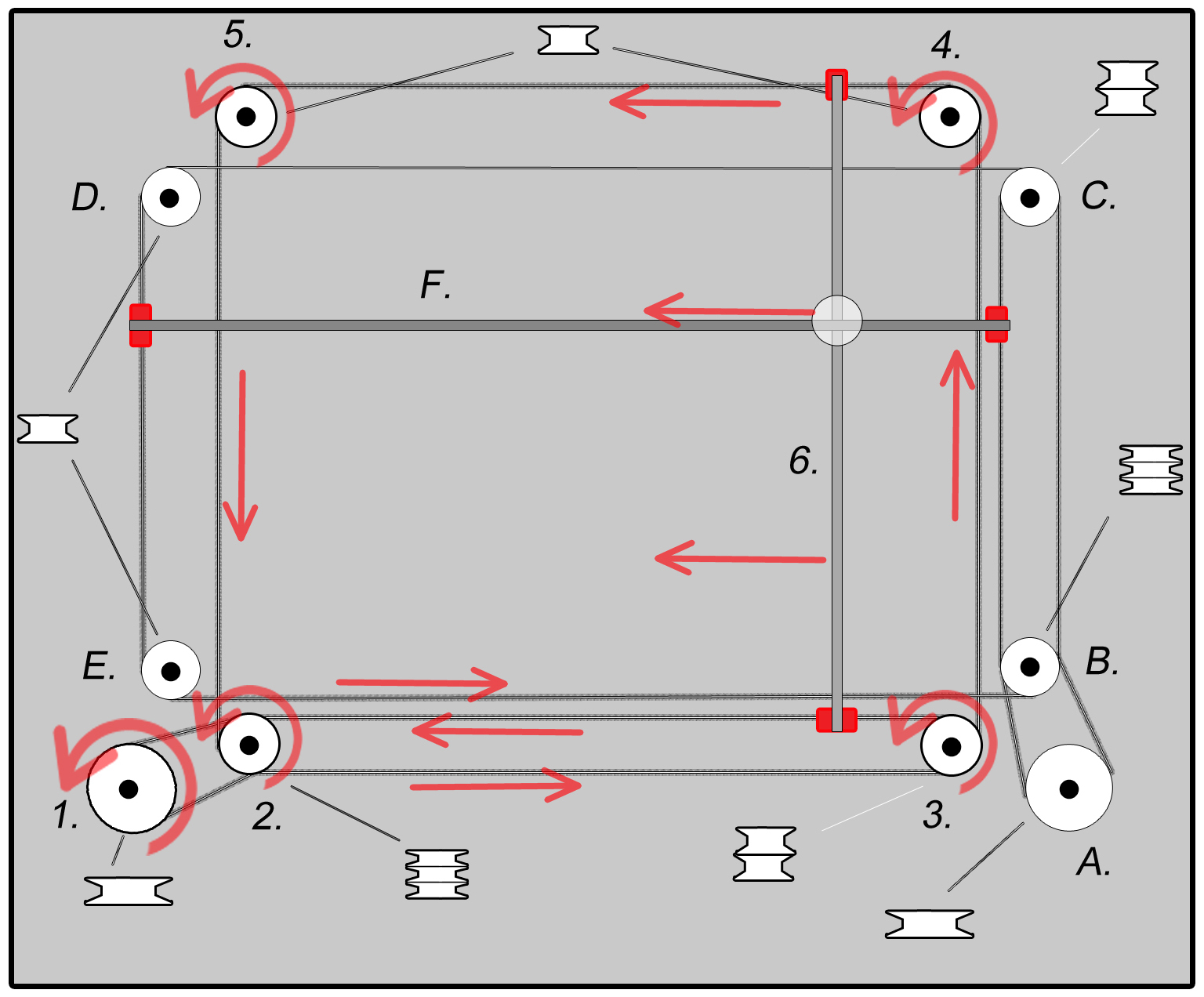 Basic mechanism of operating a 2-dimensional plotter. All of the numbered components correspond to those which move the plotter's stylus horizontally, and the lettered components with those which move it vertically. Device consists of a series of 10 pulleys, 6 cables, 2 rails, and a stylus. Pulley 1 (single-groove) is connected to pulley 2 (triple-groove) via a short infinite reciprocating cable. Two connects to 3 (double-groove) via a longer reciprocating cable which is attached along its upper course to one end of the vertical rail (6), and then a third cable runs from 2 to 3, 4 and 5 (4 and 5 are single-groove) via another much longer loop of cable which attaches between 4 and 5 to the other end of the vertical rail. Likewise, A connects to B, B connects to C and attaches to the horizontal rail (F), and finally B connects to C, D, and E, attaching to F at its other end between D and E. Turning pulley 1 counterclockwise as shown causes 2 to rotate the same way, and this causes all pulleys connected to 2 (3, 4, and 5) to do the same. The rail to which these cables is connected (6, connection points marked in red) will move to the left both at ends, causing the stylus to move in the same direction along the other rail (F). Clockwise movement of pulley 1 has the opposite effect. Pulleys A-E operate the same as 1-5, and act on the horizontal rail (F) to slide the stylus up and down along the vertical one (6).